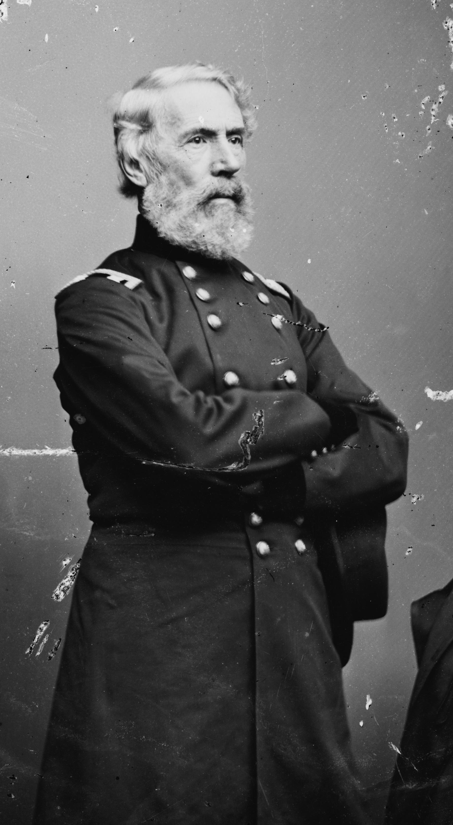 Edwin Vose Sumner. Library of Congress description: "Gen. E. V. Sumner, U.S.A."